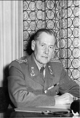 Deputy Military Commander of the III Military District, Colonel Carl Lemmel.